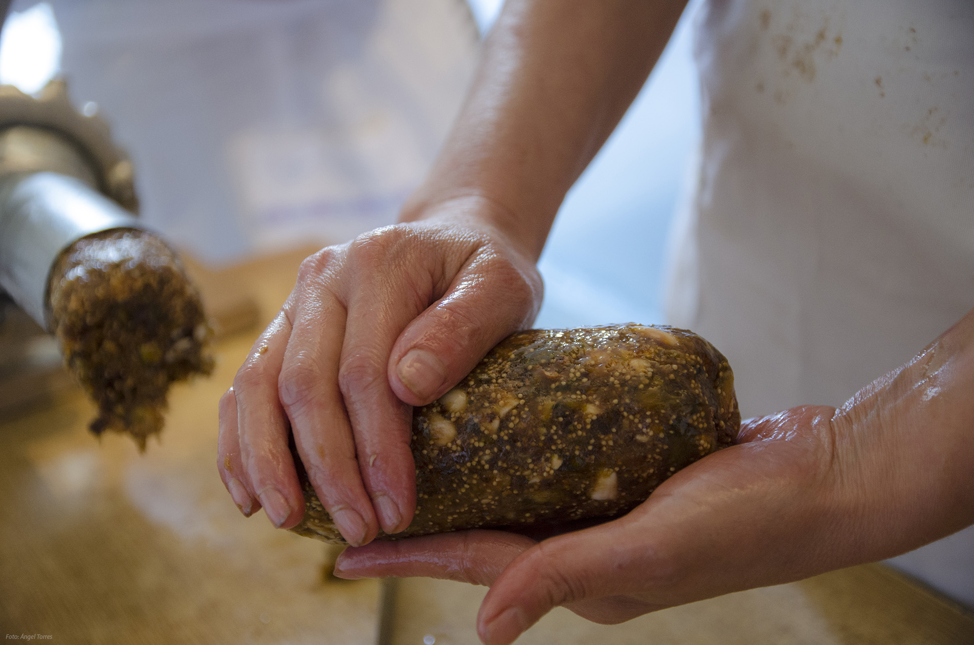 Traditional fig cake or "fig bun" (bollo de higo), similar to panforte. dried figs, almonds and walnuts, other ingredients. from the Sierra Sur de Jaén and Valdepeñas de Jaén regions of Spain.